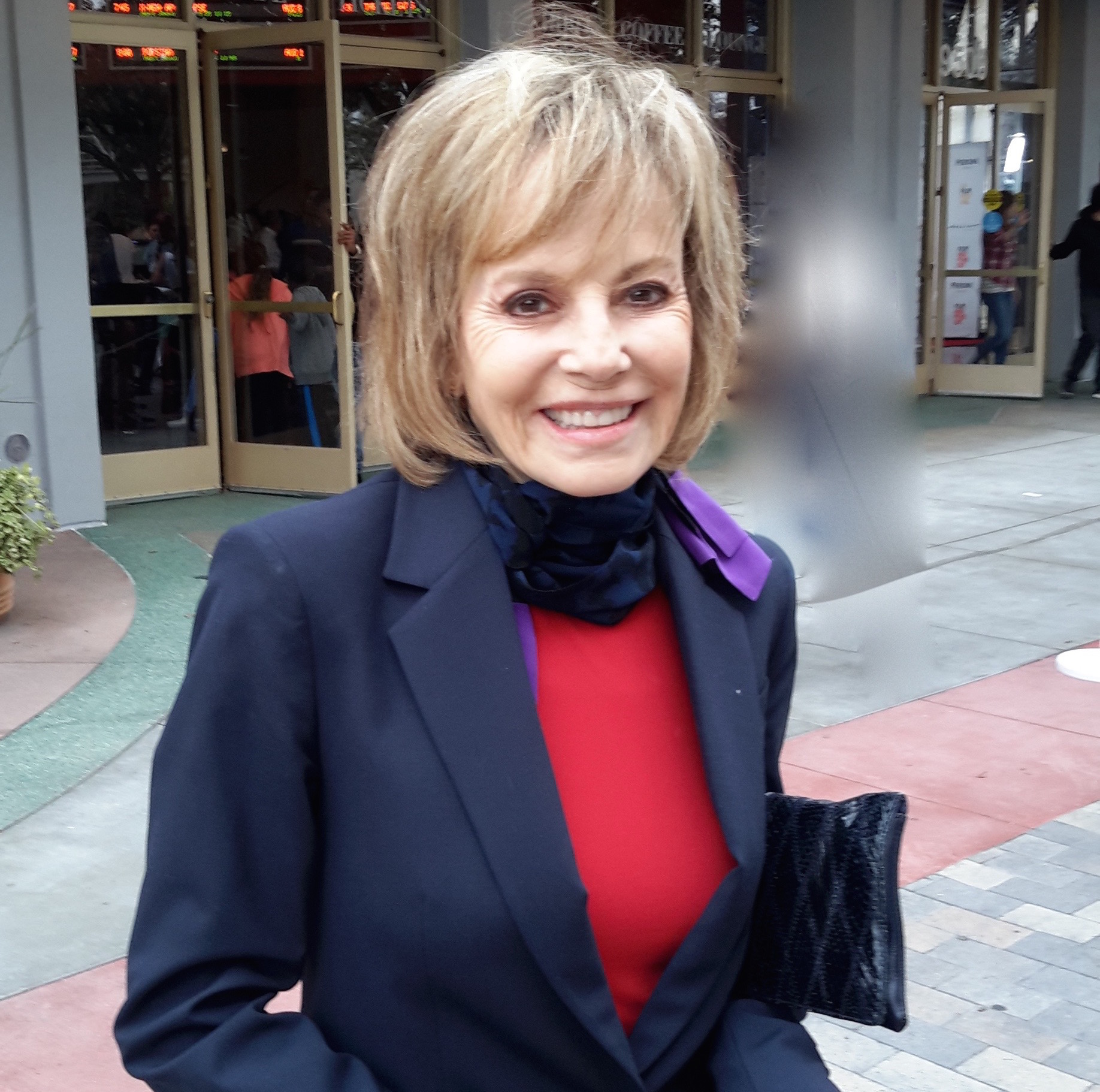 Senator Migden at the 2016 Los Angeles International Film Festival in Culver City, CA, for the premier of the film Political Animals.